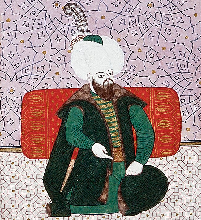 Minature of Ottoman Sultan Bayezid II.